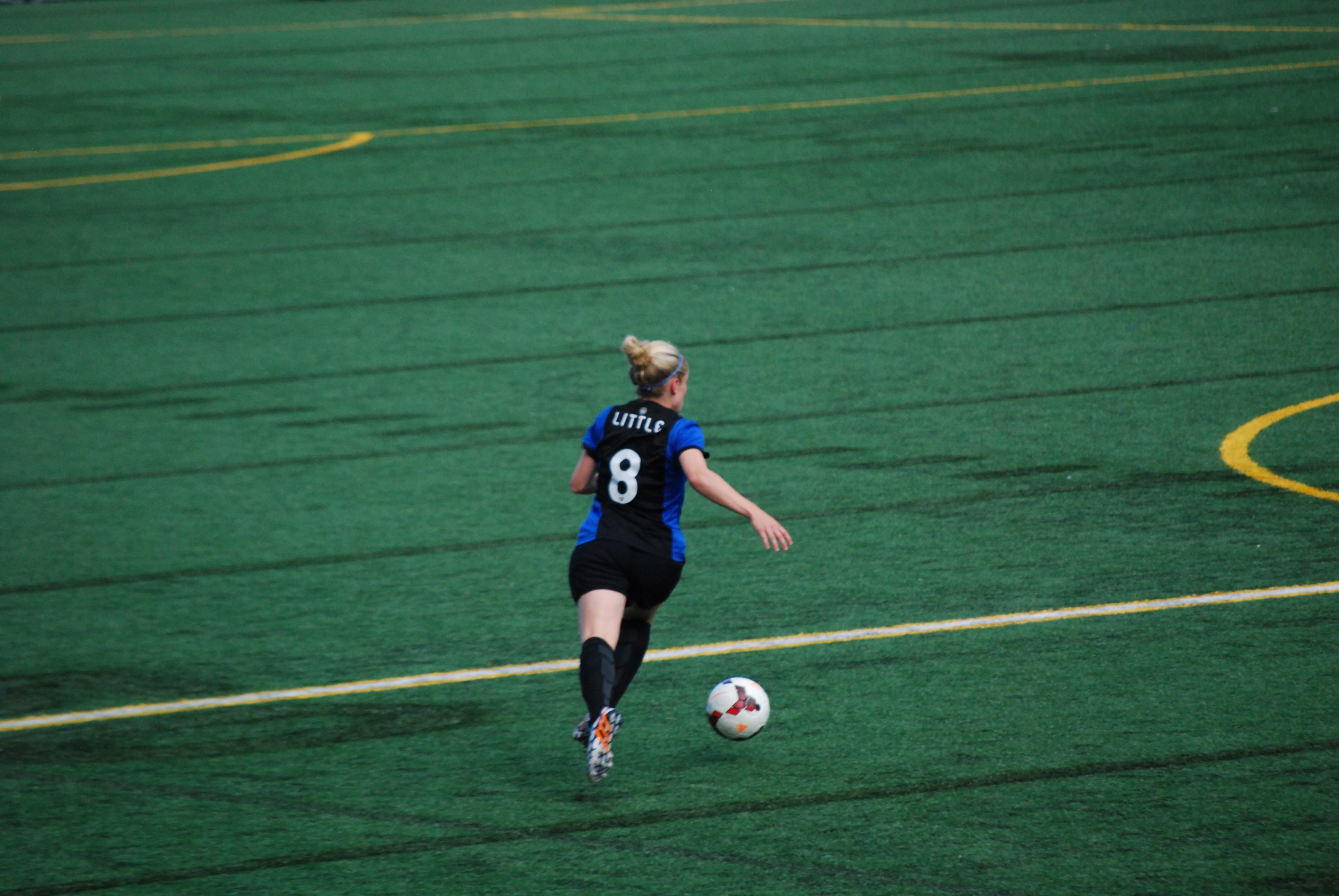 Seattle Reign FC vs Sky Blue FC Memorial Stadium, Seattle Center Seattle, WA June 28, 2014